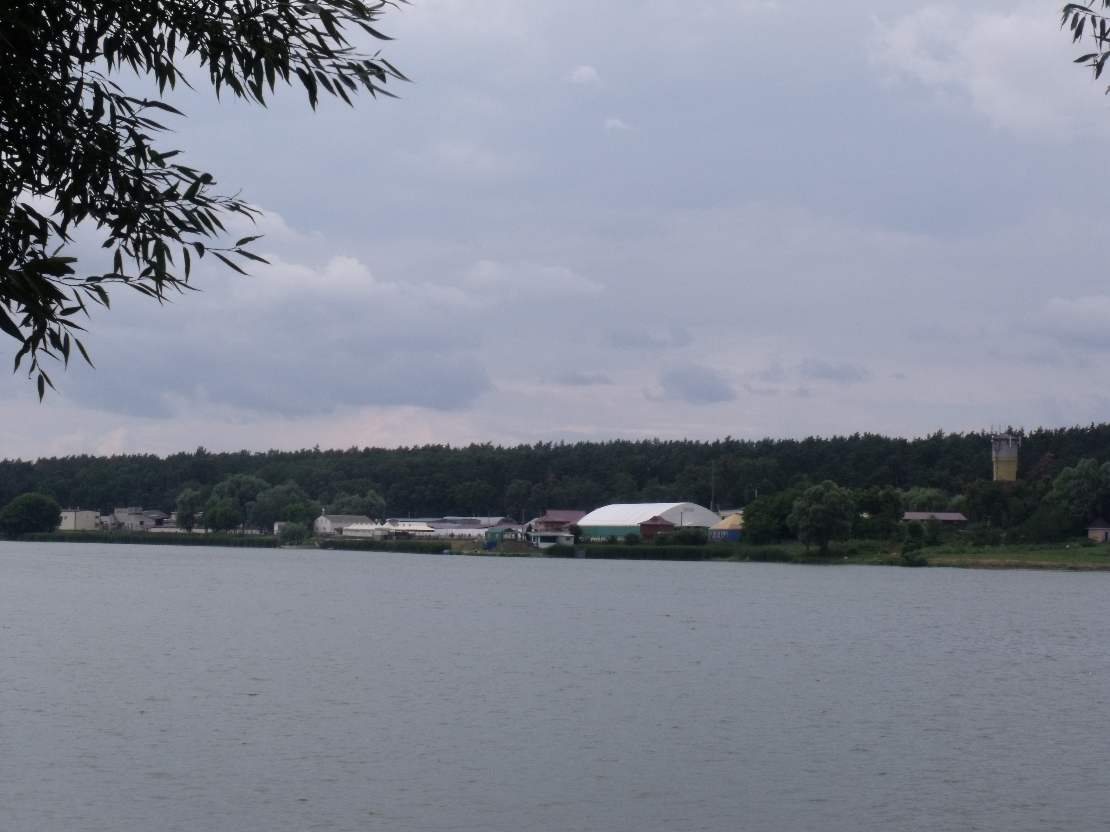 Siverka river in Kruhlyk village, Kiev Oblast, Ukraine